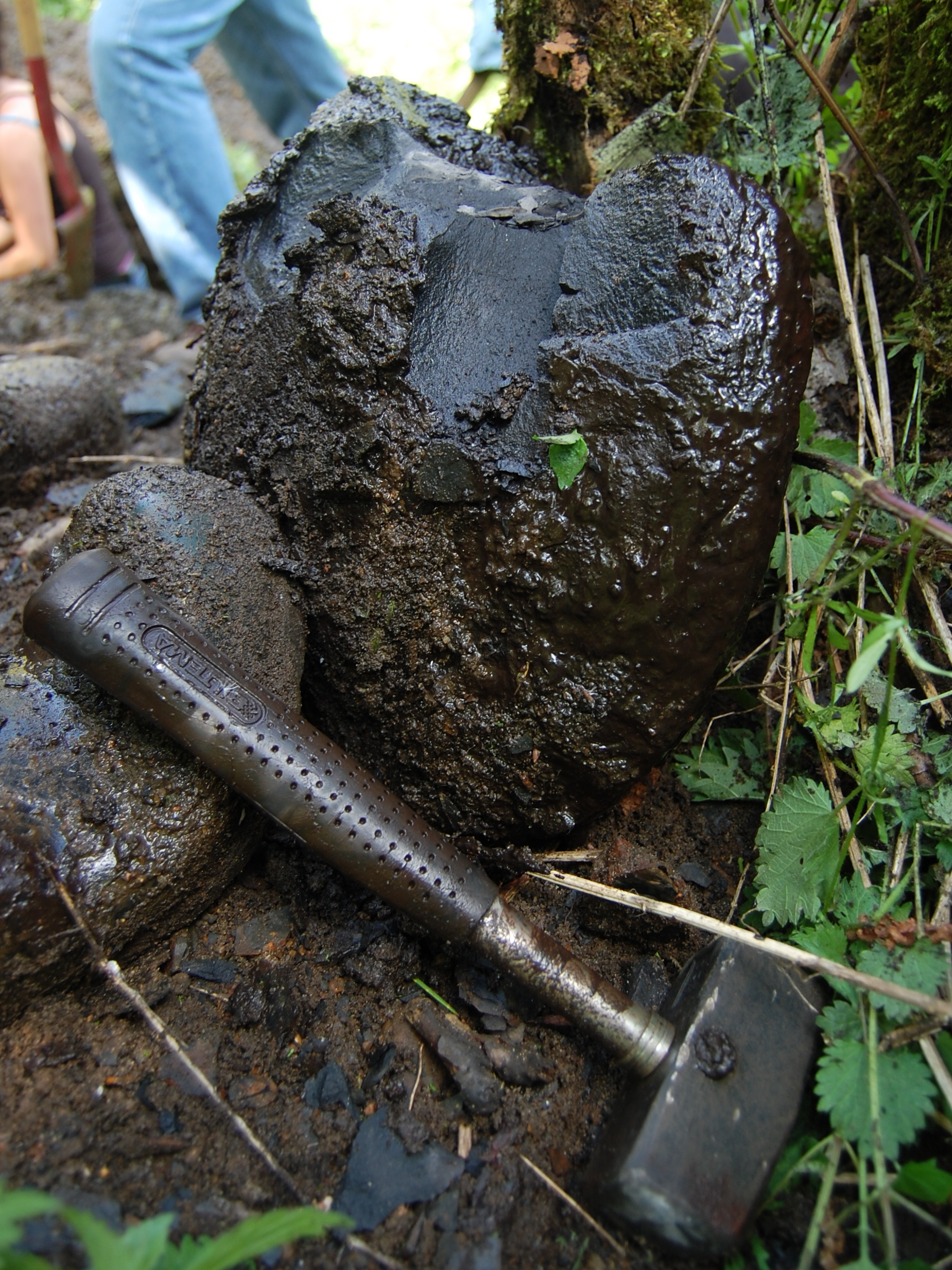 An Orsten limestone concretion from the Furongian alum shales at Andrarum, Southern Sweden